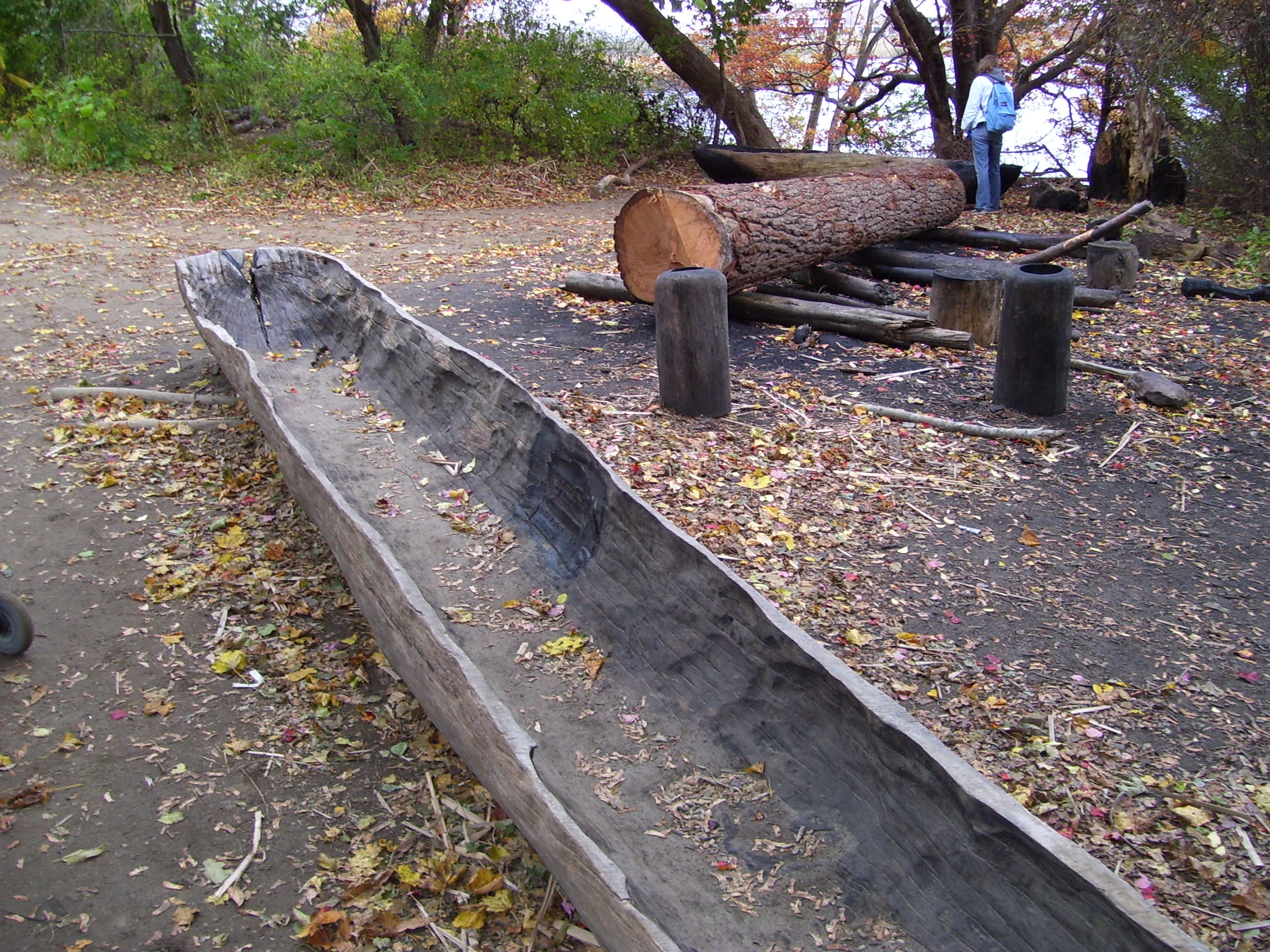 My 2009 photo from Plimoth Plantation in Plymouth, Massachusetts, USA.